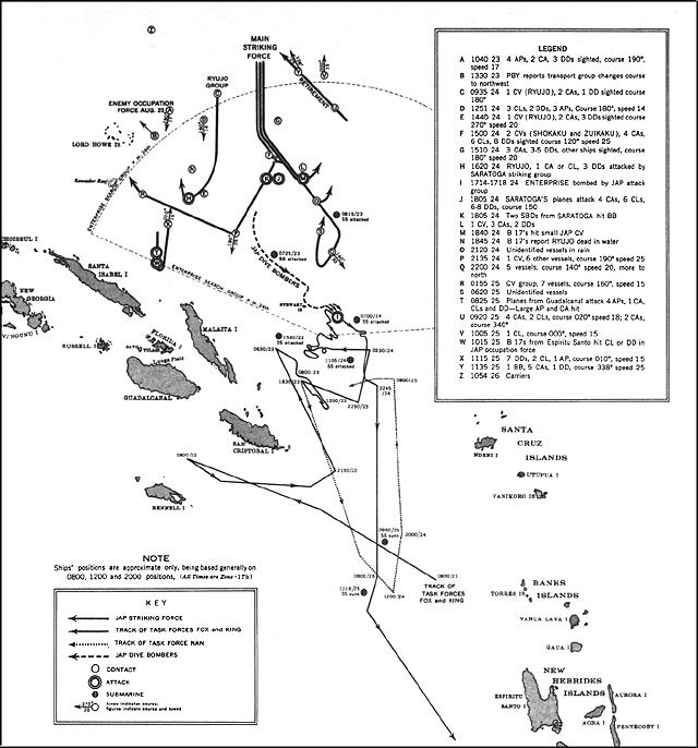 US Navy map of The Battle of the Eastern Solomons. Tracks of Allied (U.S.) forces are most likely fairly accurate. Tracks of Japanese forces are approximate and/or conjectured. The term "Jap" is used as shorthand for "Japanese" on the map. It's unknown whether this was used pejoratively in this publication or as an accepted abbreviation at that time.